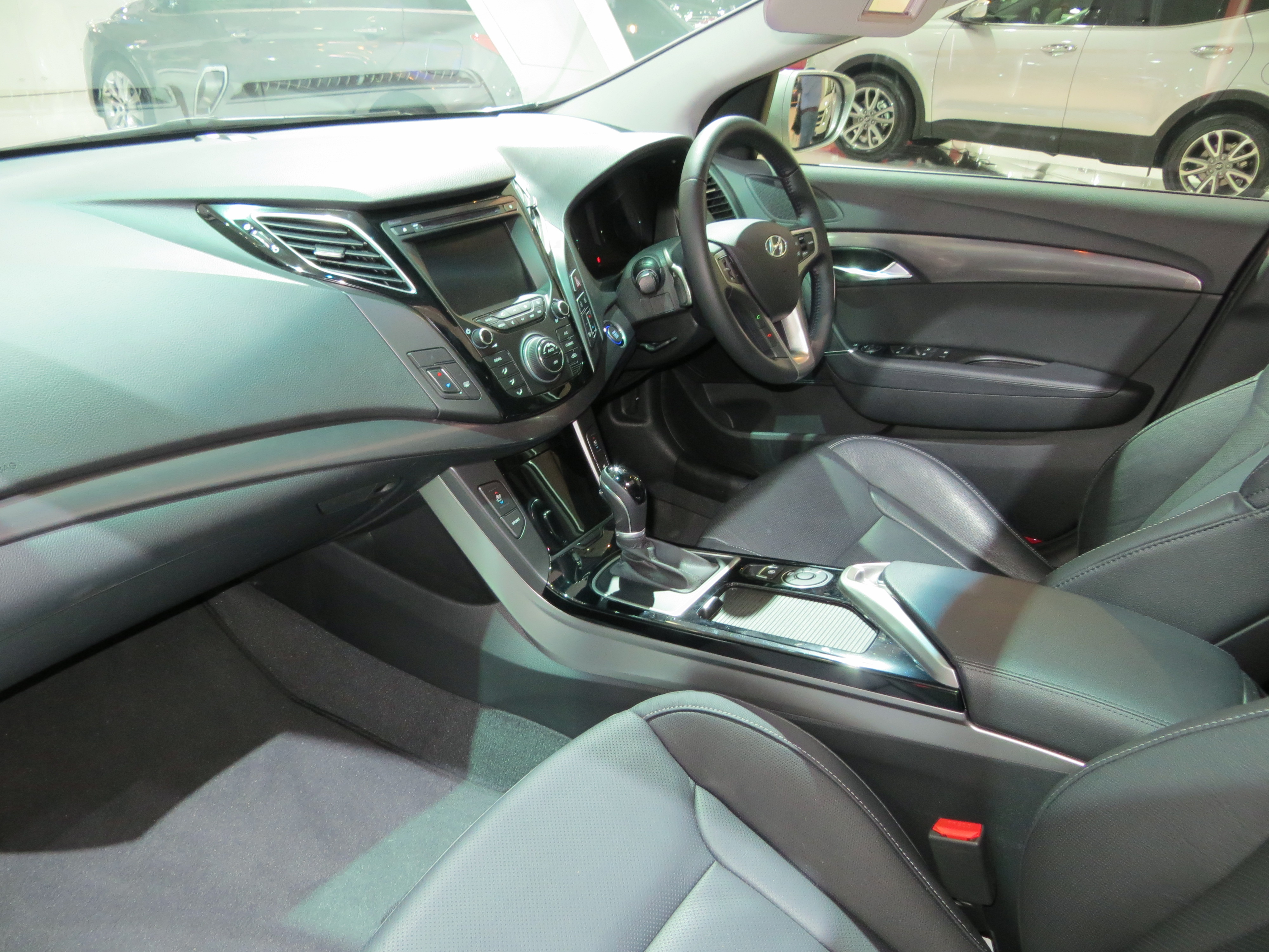 2012 Hyundai i40 (VF2) Premium sedan. Photographed at the 2012 Australian International Motor Show, Sydney, New South Wales, Australia.